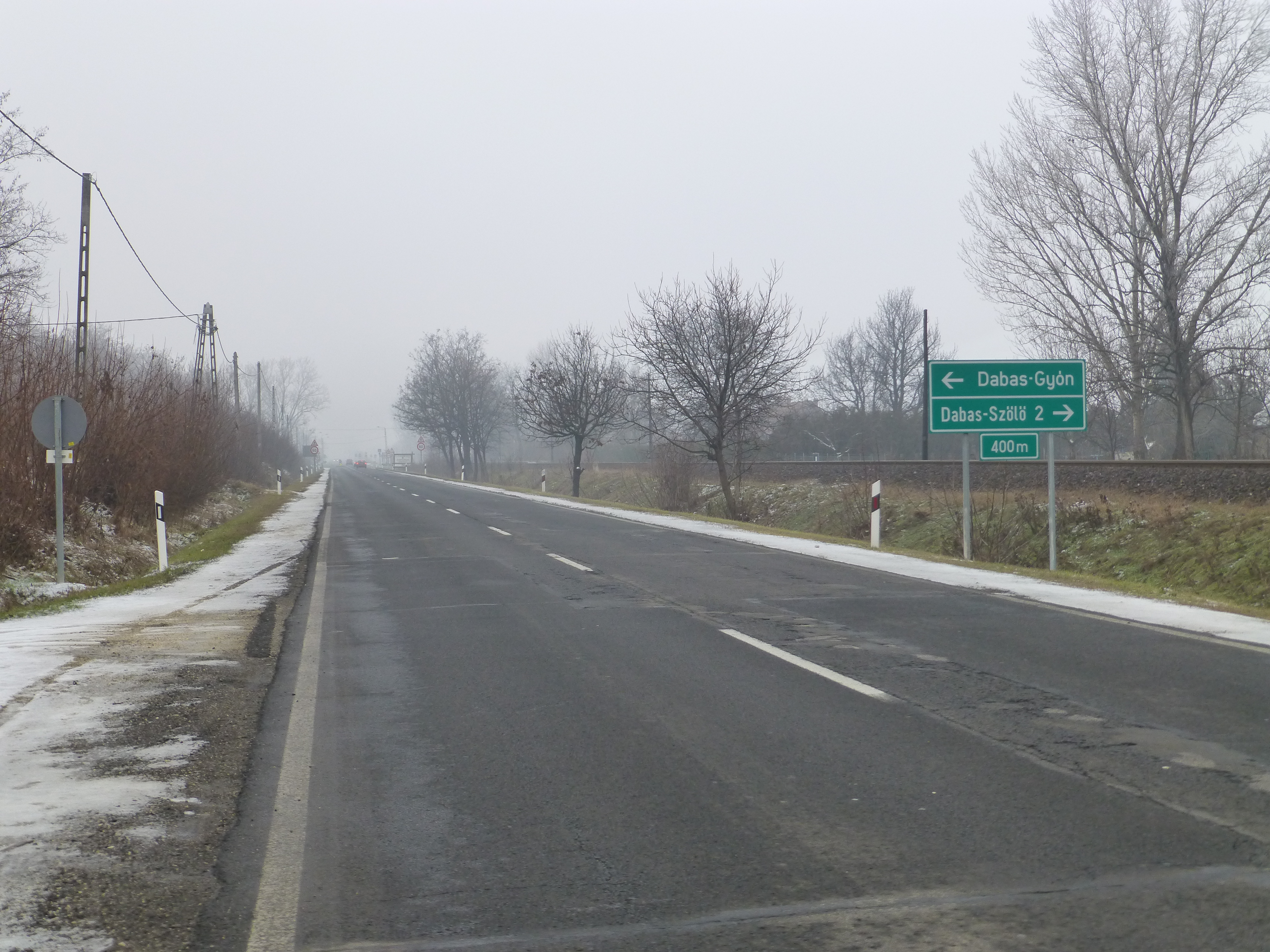 The Hungarian national main route nr. 5; East of Dabas-Gyón. This section of the road was a famous racetrack during the 1930s. The photo shows the place where Eric Fernihough died.